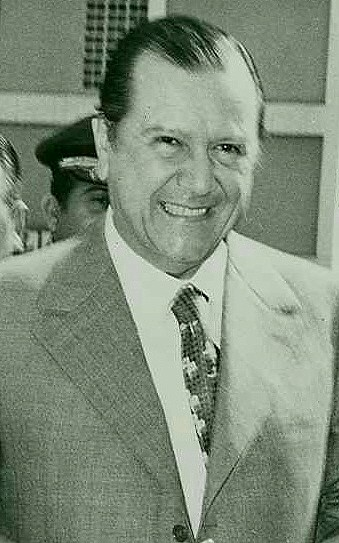 Venezuelan president Rafael Caldera in 1972.